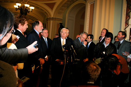 Senator Lautenberg is joined by Senate Minority Leader Harry Reid, DSCC Chairman Charles Schumer, and N.J. Governor-elect Jon Corzine at a press conference in the Capitol to welcome Rep. Bob Menendez to the U.S. Senate. Rep. Menendez was appointed by Senator Corzine to serve the remainder of his term. December 15, 2005.